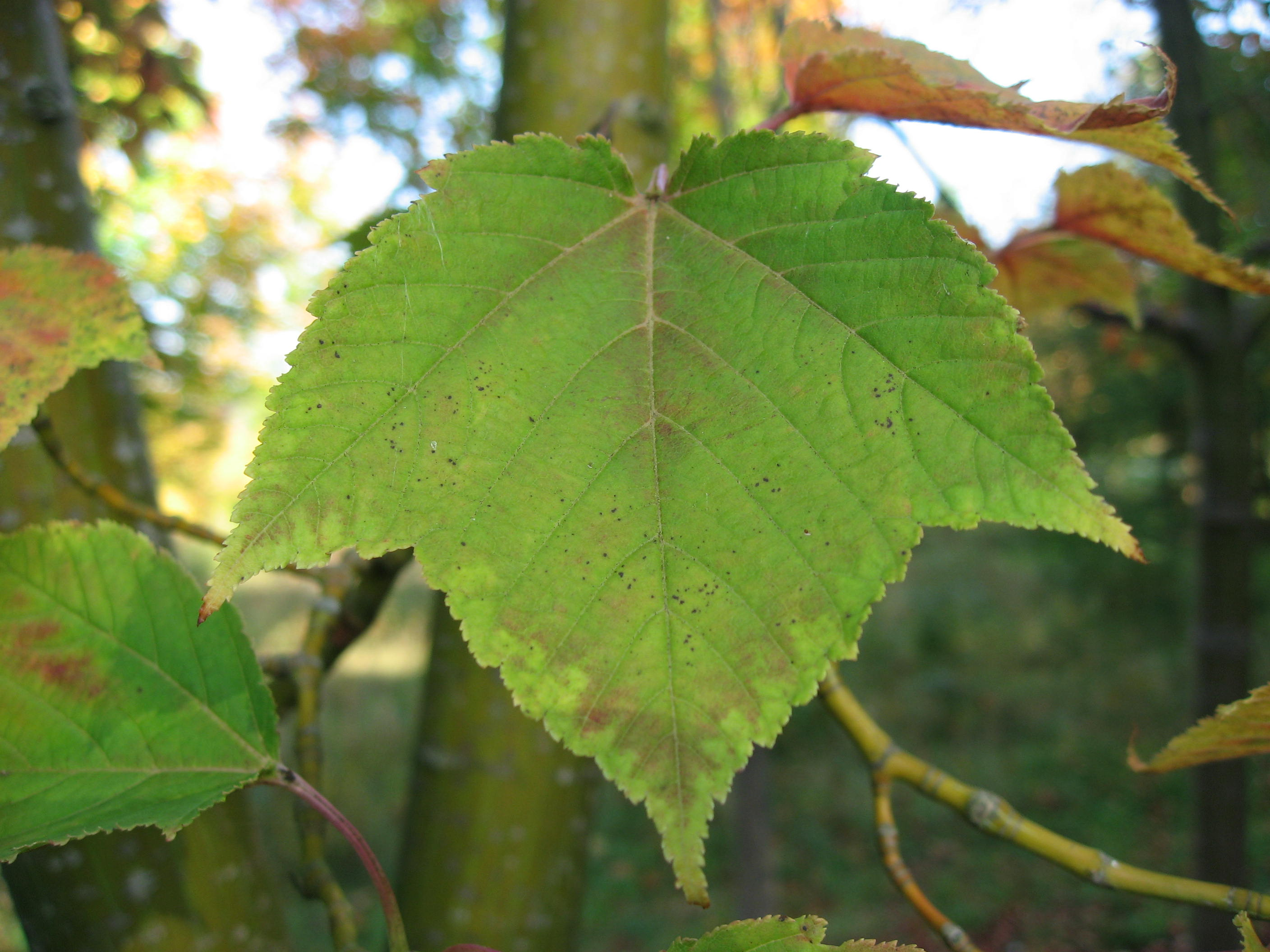 Acer rufinerve in Arboretum de La Roche-Guyon Map: 49° 5' 56" N 1° 38' 23" E